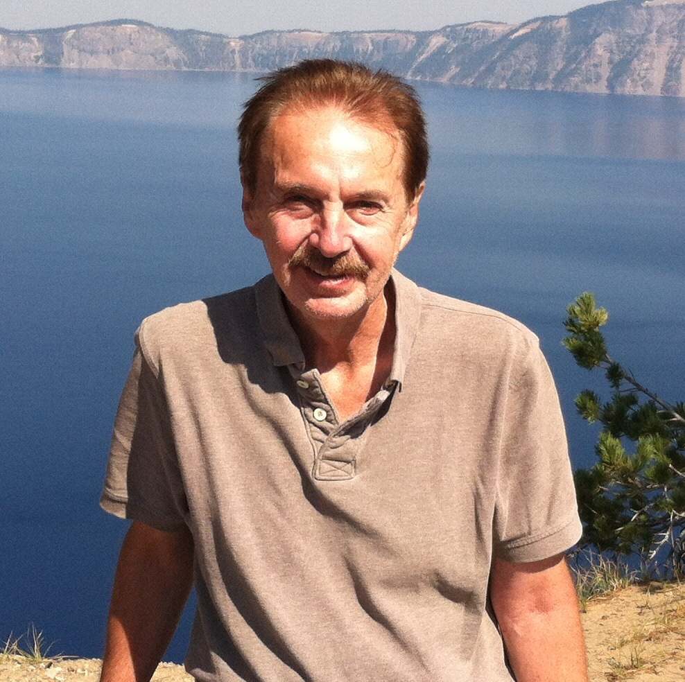 Photo of Jon Palfreman which is creditted to someone else here